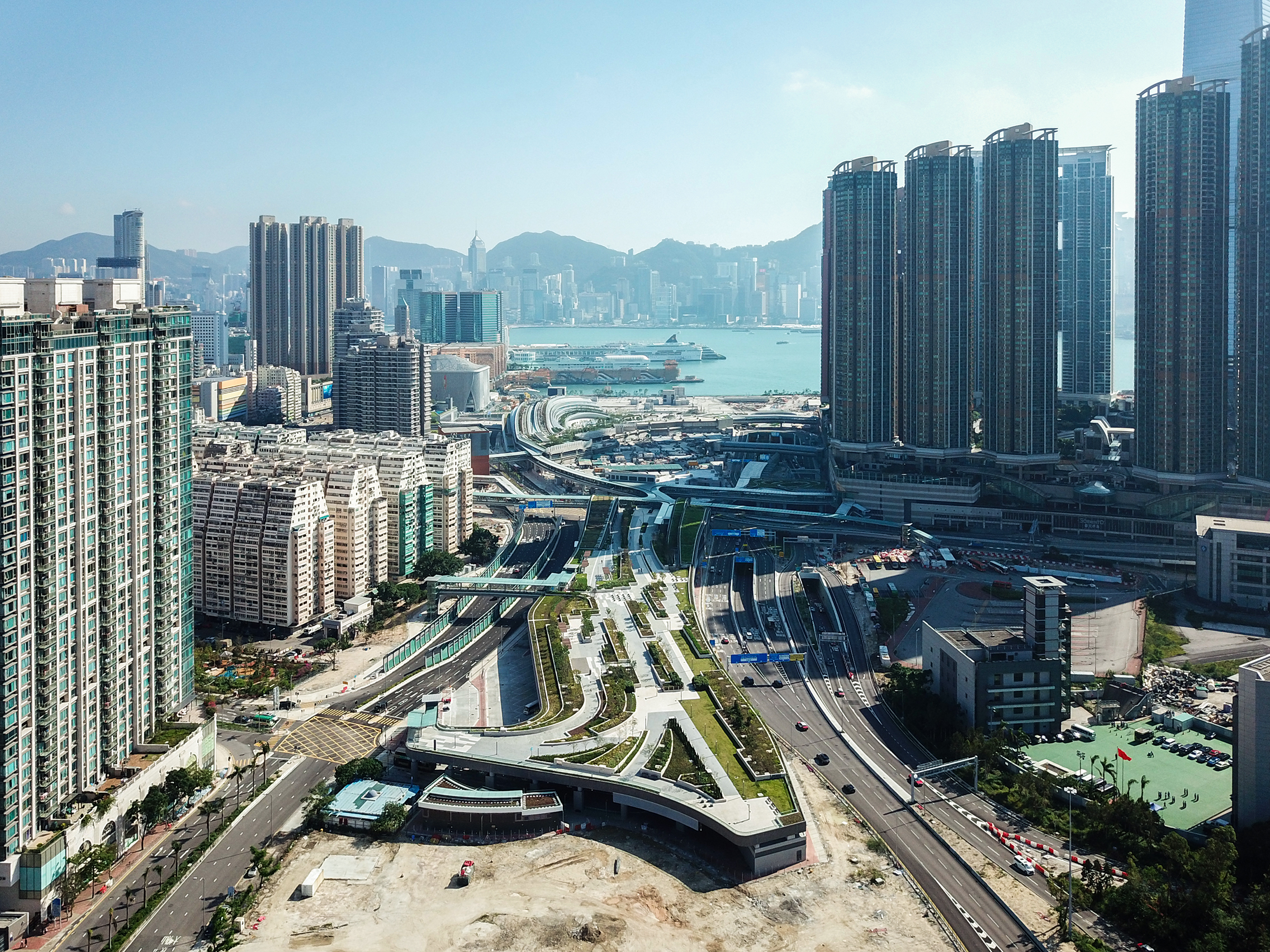 West Kowloon Station Bus Terminus Rooftop Garden Aerial view